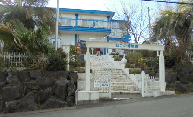 The Cat Museum (ねこの博物館), in the Itō, Shizuoka, Japan